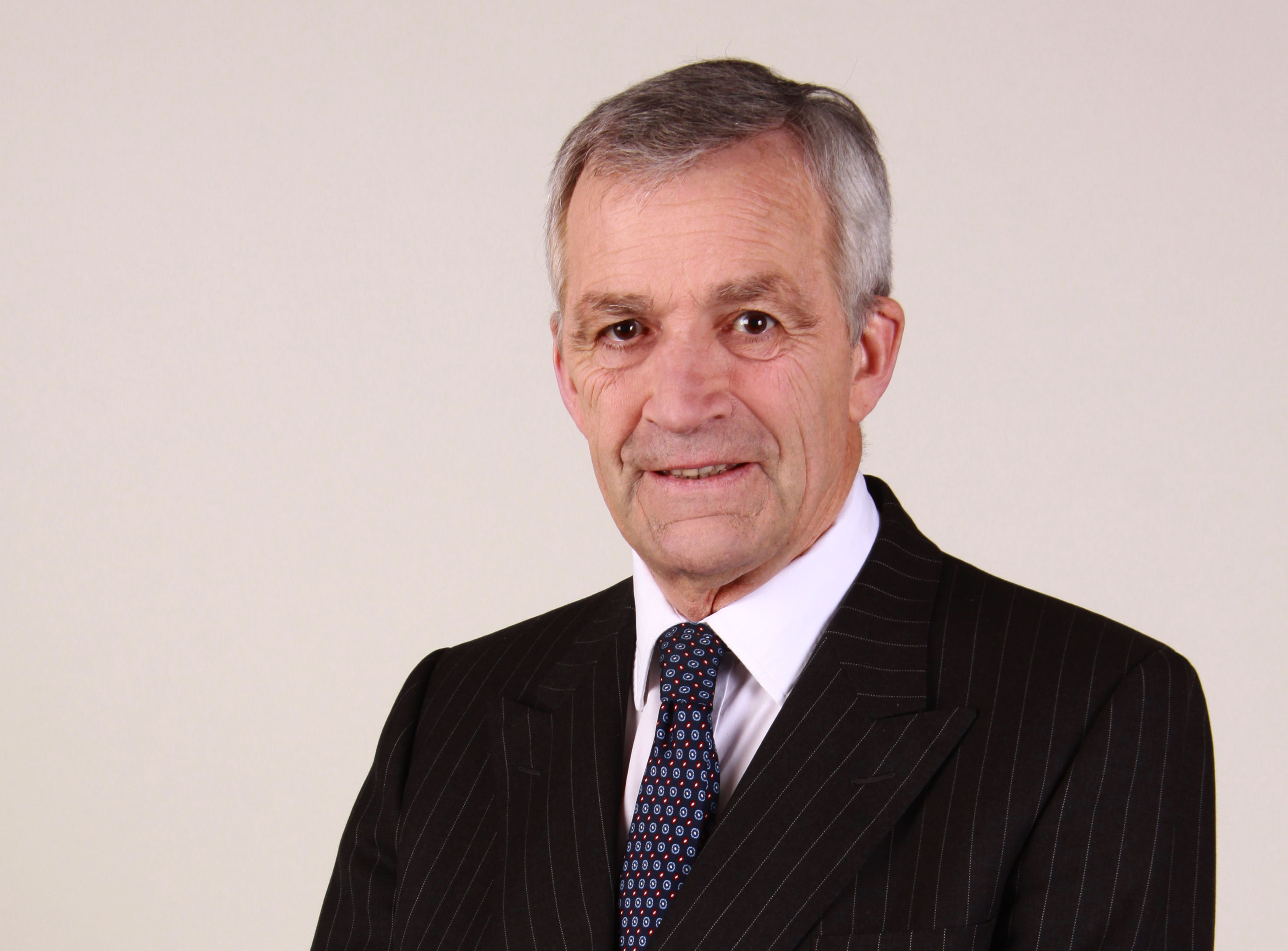 Abgeordnete/r Europaparlament Richard Ashworth